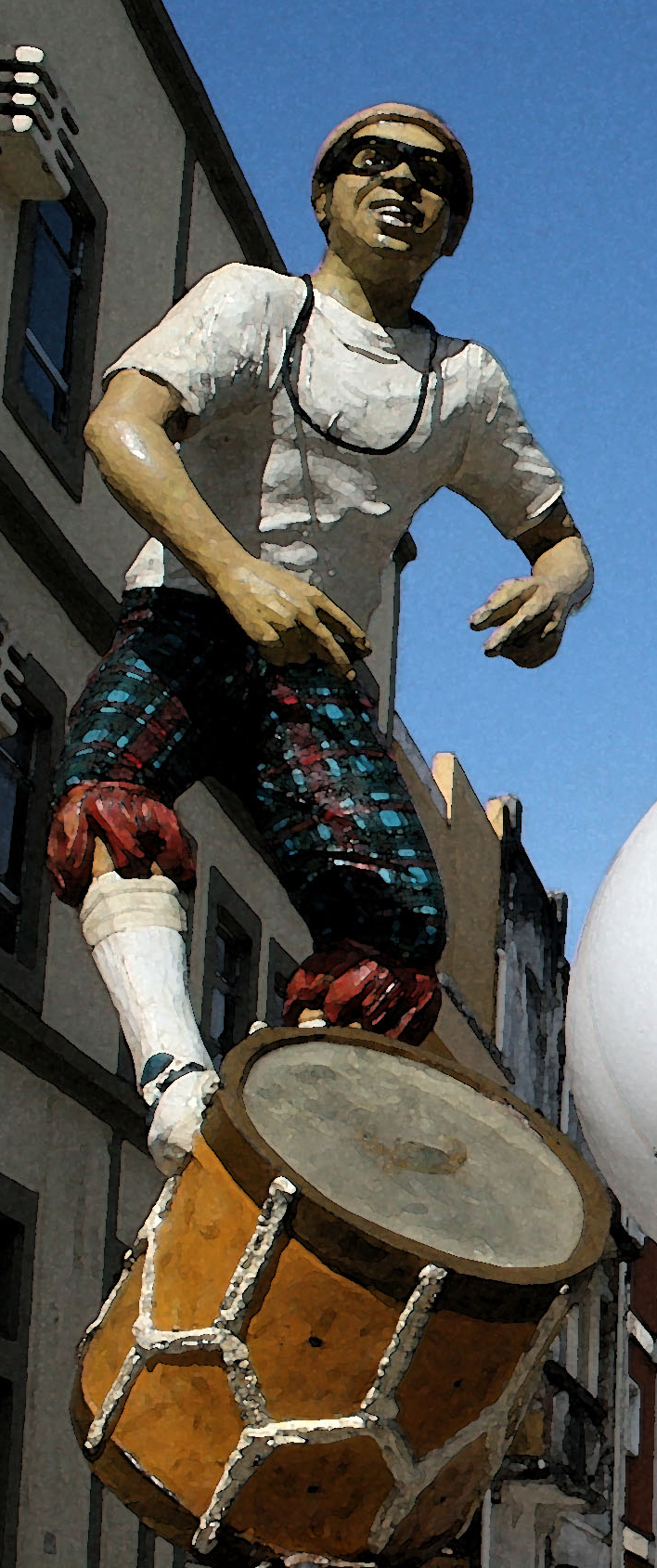 Statue of Chico Science (Recife - Pernambuco - Brazil).